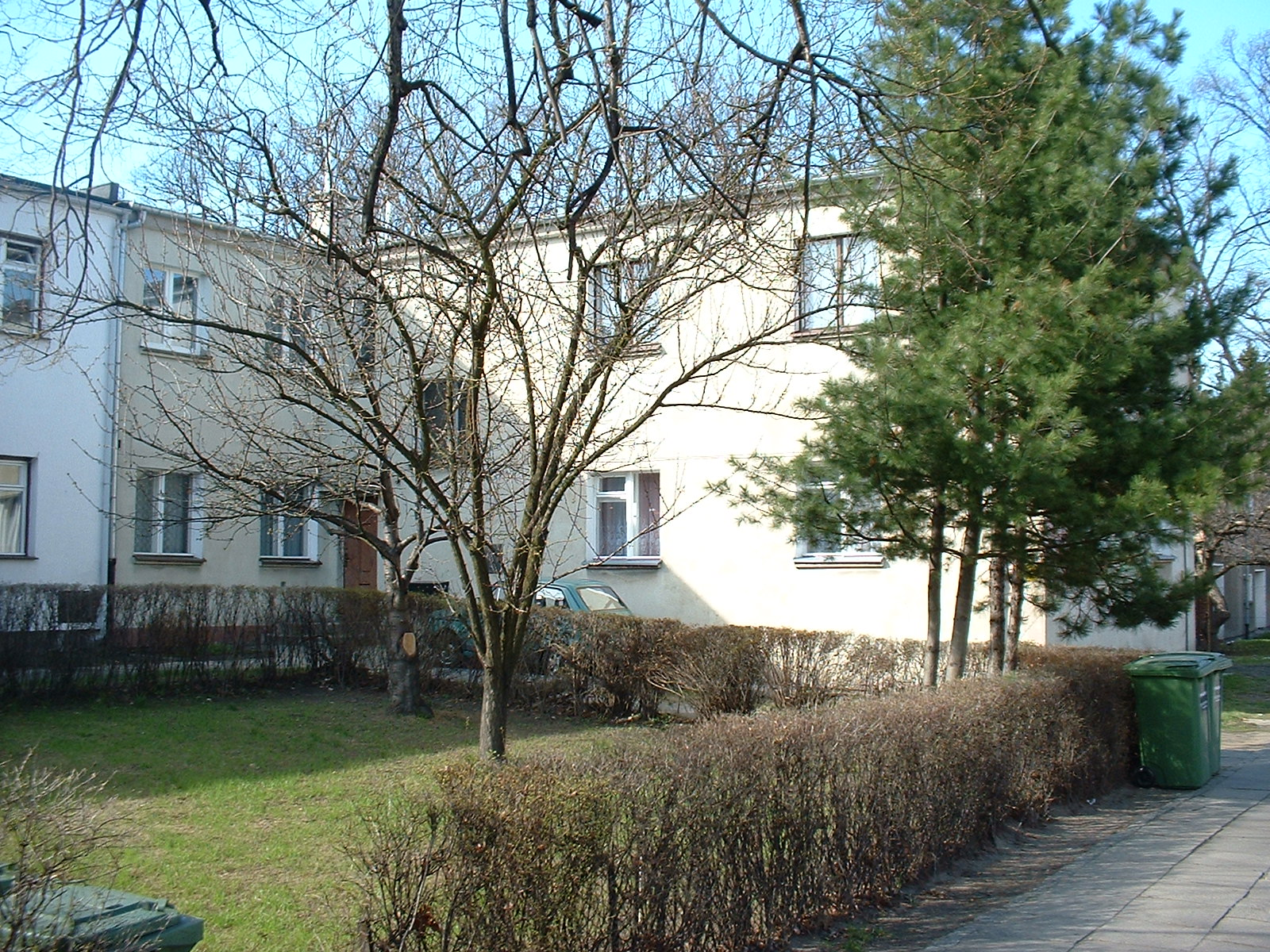 Wrocław, WUWA, 1929, terrace houses No. 21 and 22. Architect Theodor Effenberger. East façade (No. 21) and south façade (22). Presently private property.